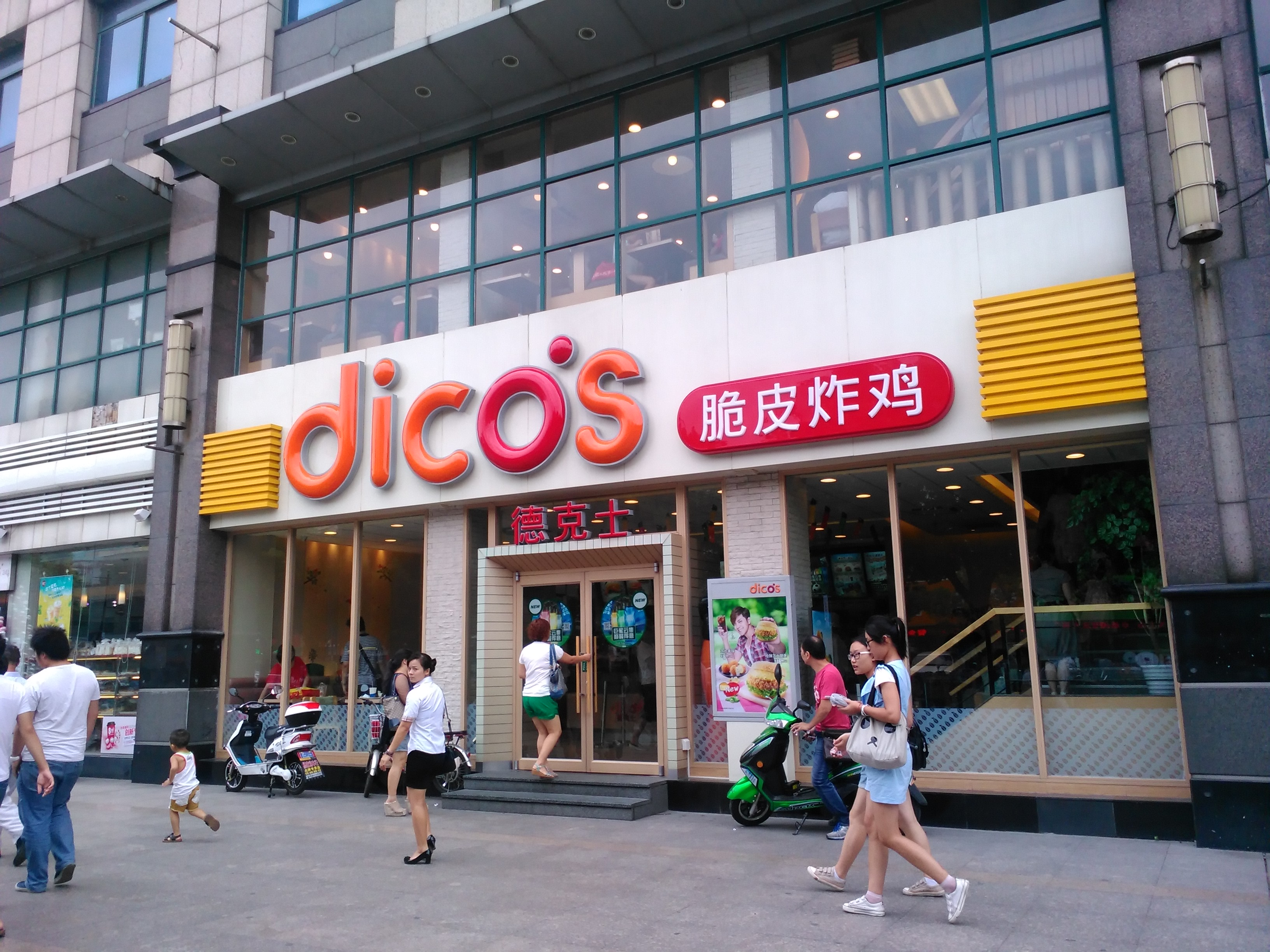 Dico's in Diamond City (星钻城), Shanghai